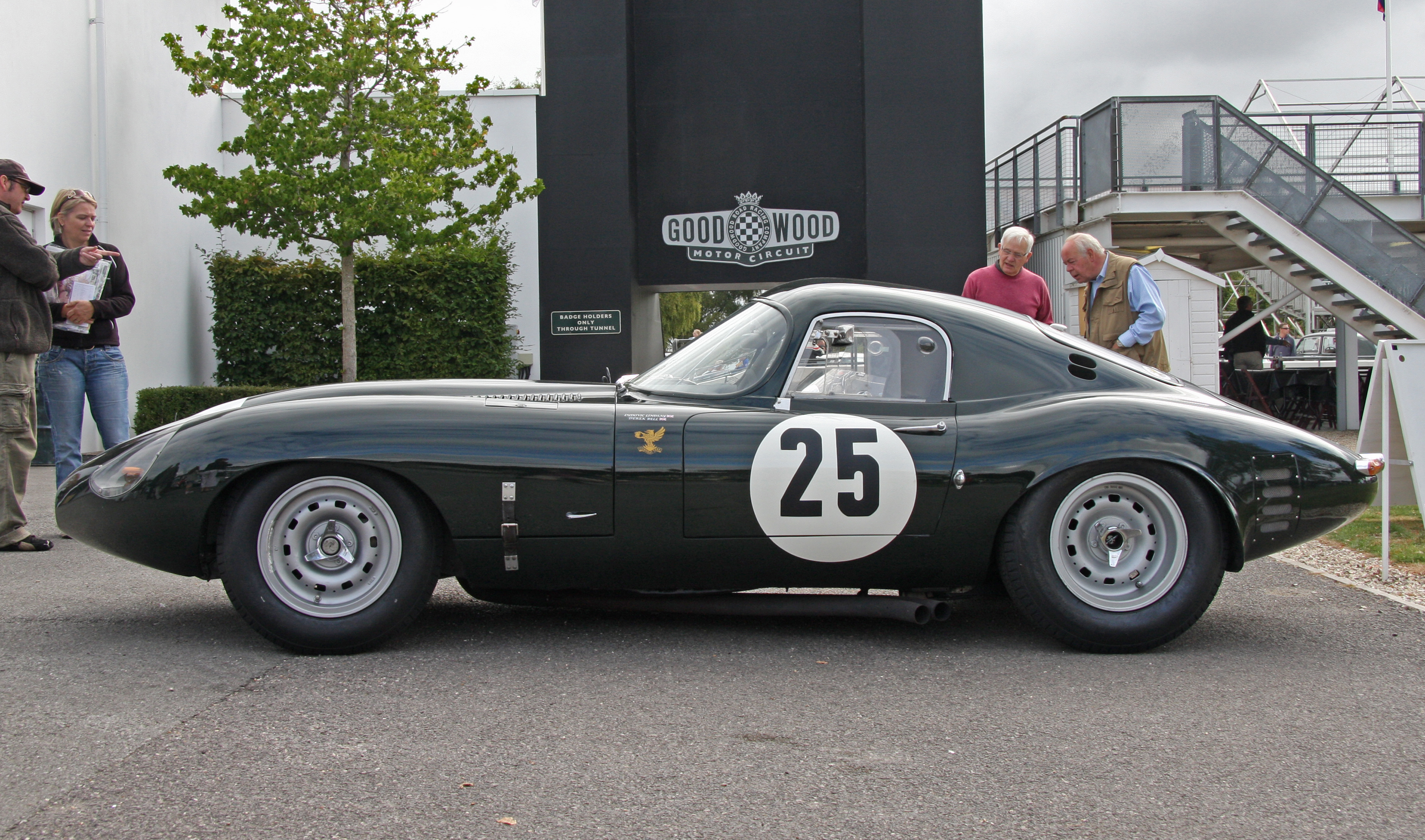 The competition record of '49 FXN' stretches well over 40 years of almost continuous racing, first in contemporary and later historic events.